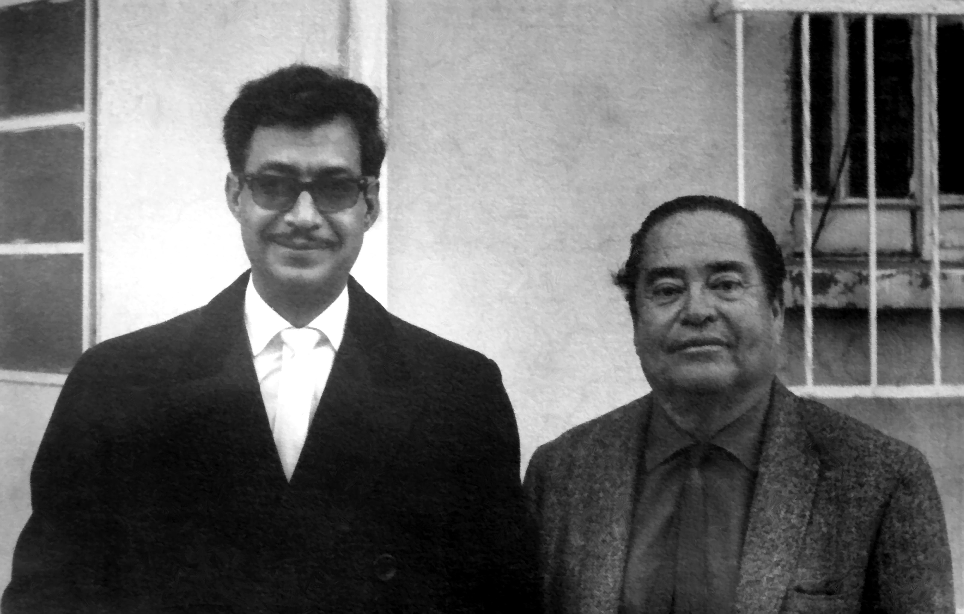 Luis Ximénez Caballero and Higinio Ruvalcaba in Mexico city (1968)